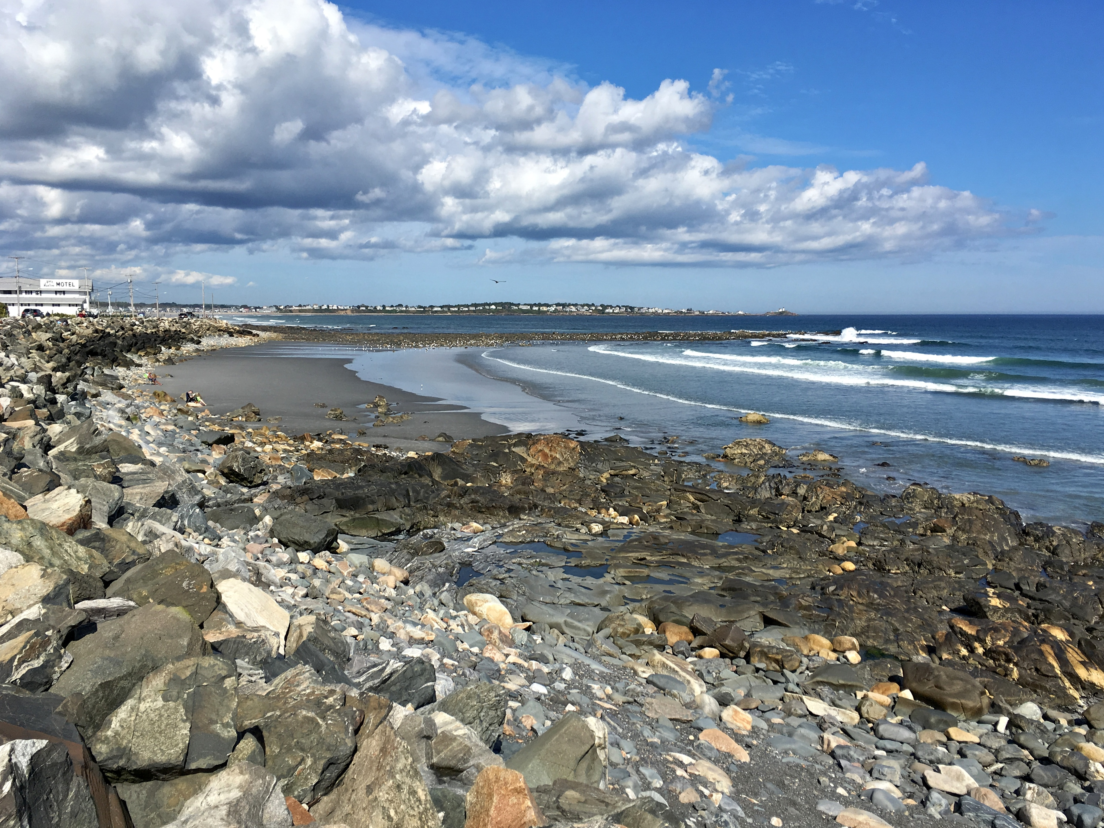 Long Sands Beach at York Beach in September